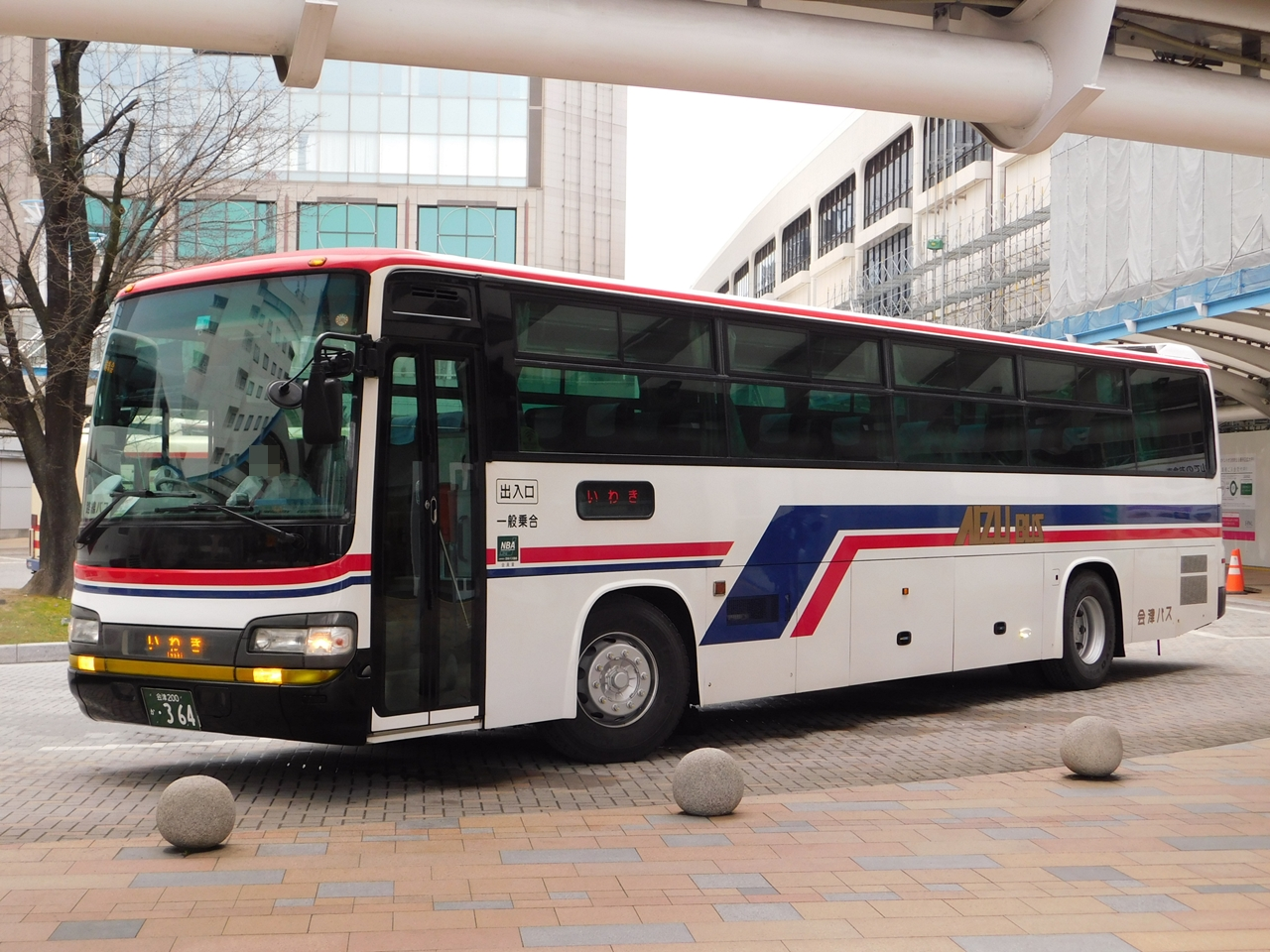 Aizu bus Hino S'elega R FS (KL-RU4FSEA)on highwaybus "AizuWakamatsu-Koriyama-Iwaki"